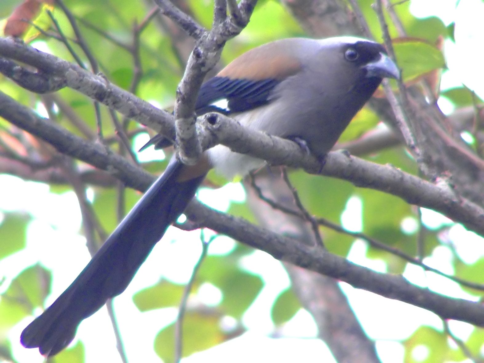 Dendrocitta formosae (Grey Treepie) at a park in Taipei, TaiwanWatching